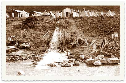 Ein Harod Tents, Settlements in Israel